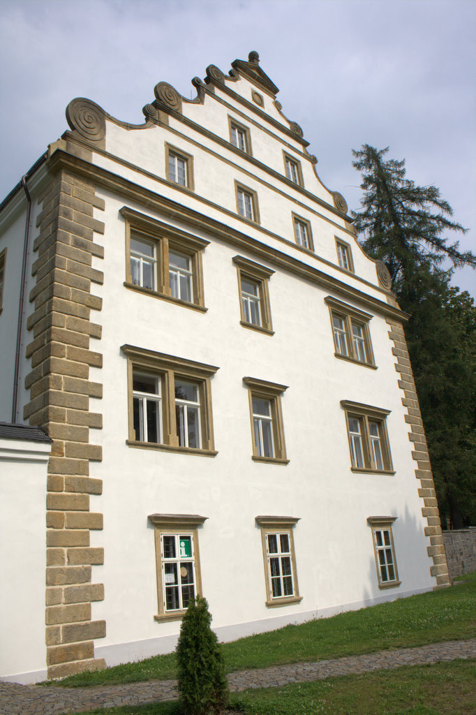 Castle in Šluknov (Northern Bohemia, Czech Republic) after reconstruction